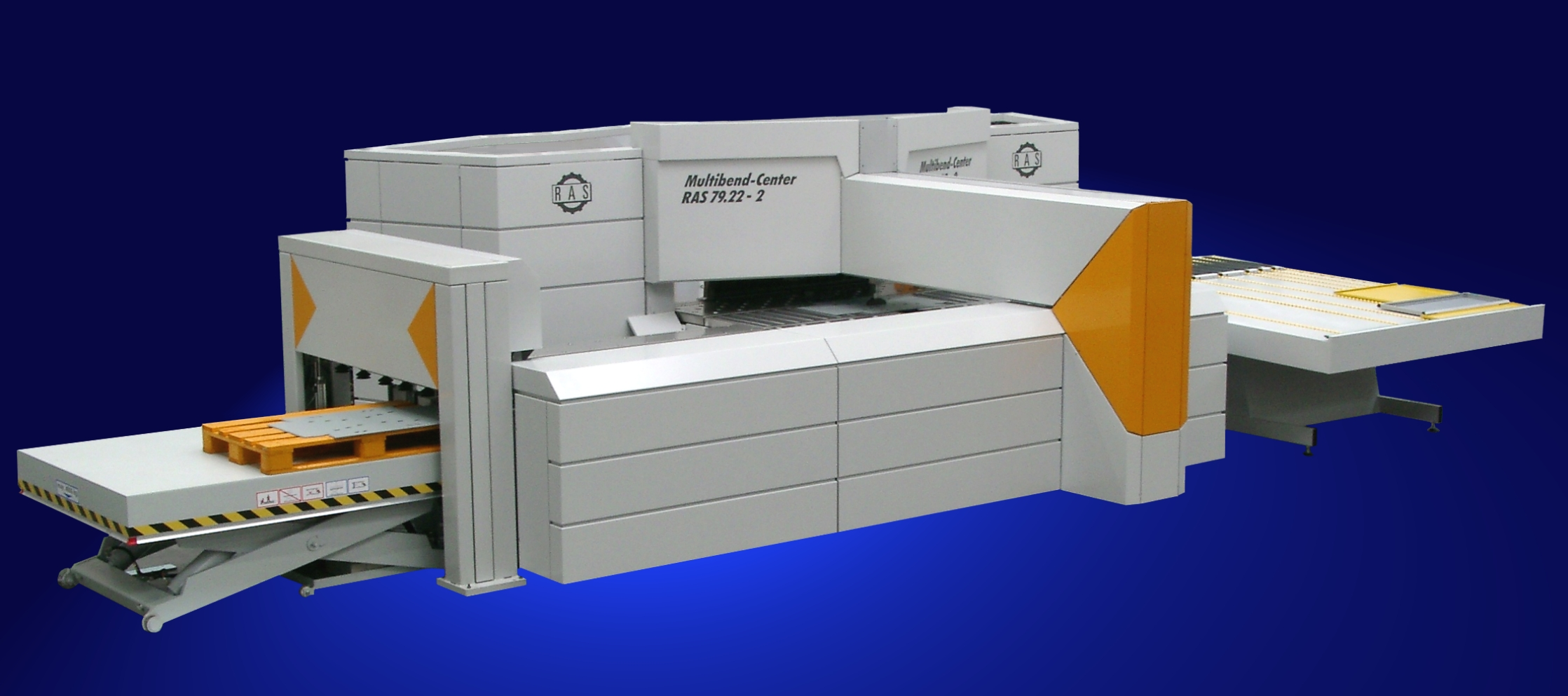 Folding center RAS MULTIBEND-CENTER